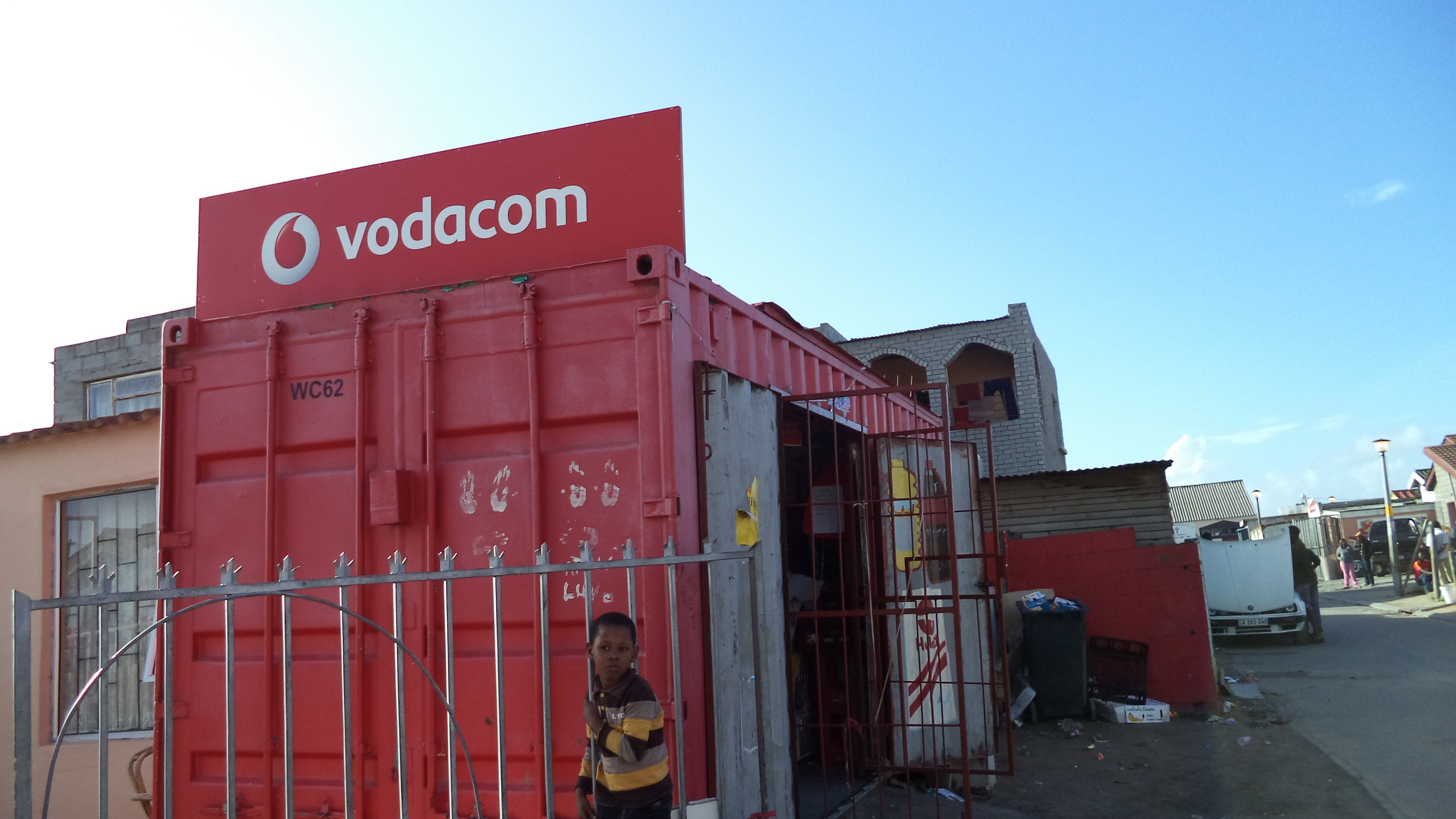 cintainer shop in joe slovo park